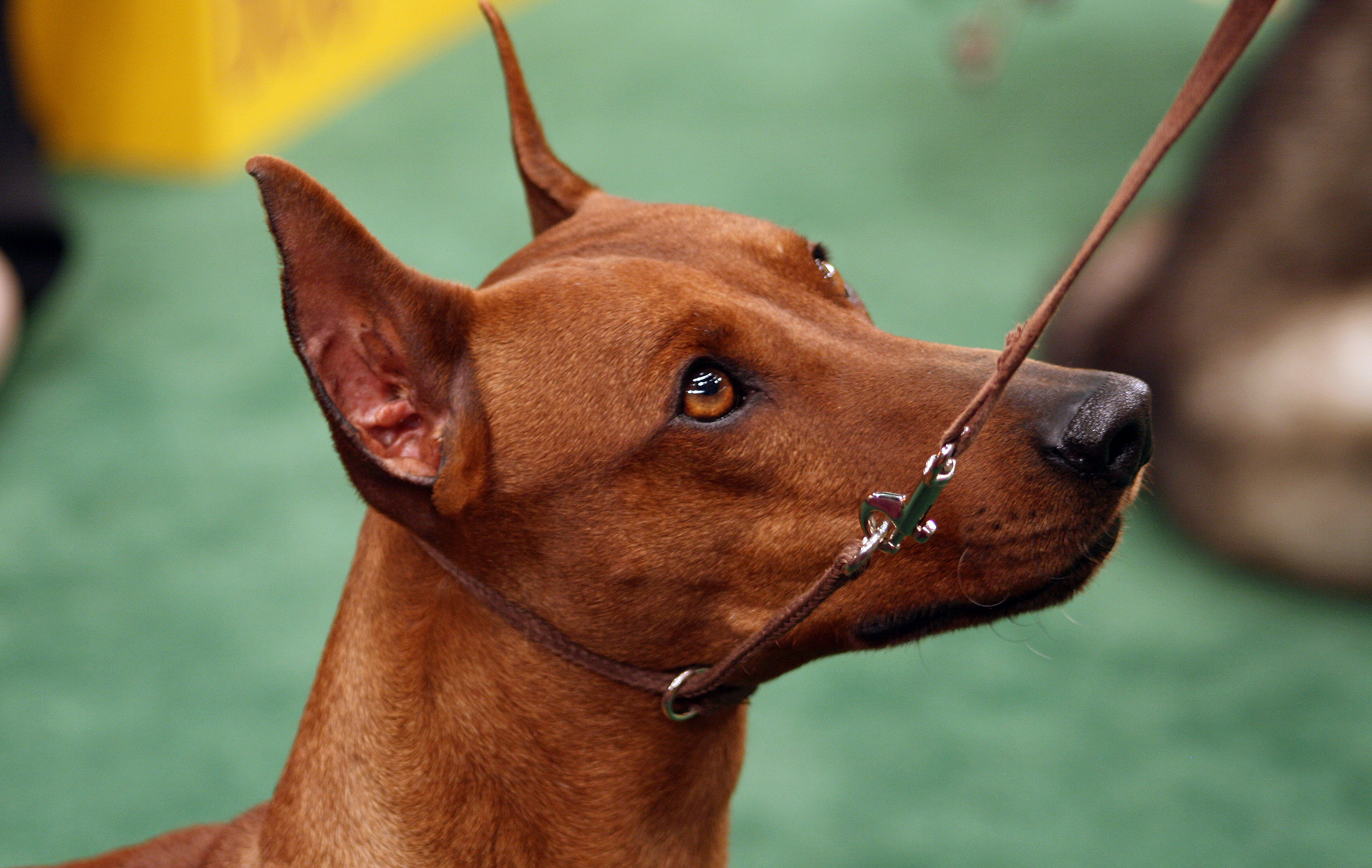 Loved the attention to his handler in this photo. Such beautiful eyes. This is the German Pinscher who made it to the Working Group finals at Westminster Kennel Club Dog Show in NYC. 2/2009